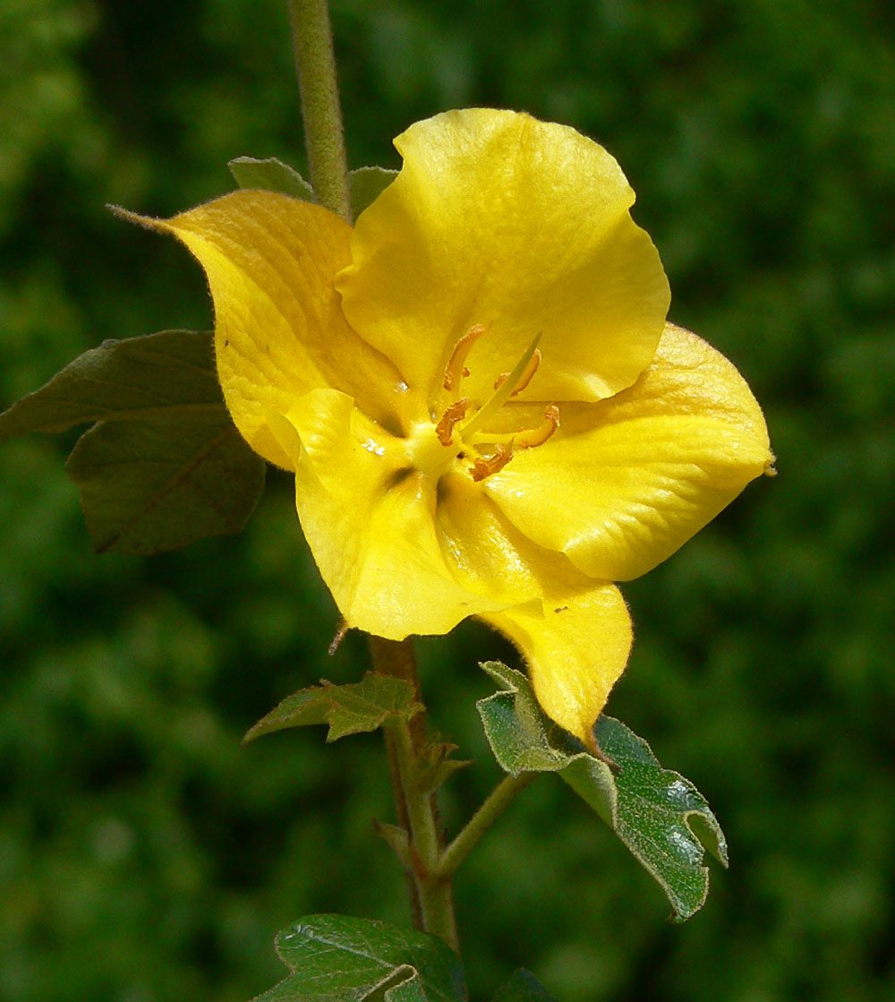 Photo of Fremontodendron 'California Glory' at the San Francisco Botanical Garden